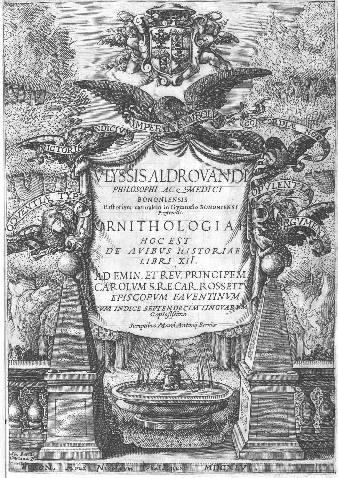 Cover page of Ornithologiae, hoc est De avibus historiae